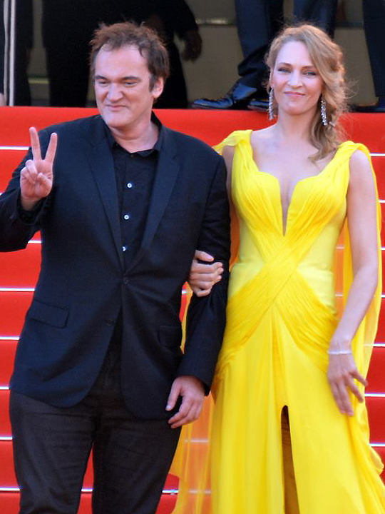 Quentin Tarantino and Uma Thurman at the Cannes Film festival, for the 20th anniversary of "Pulp fiction"